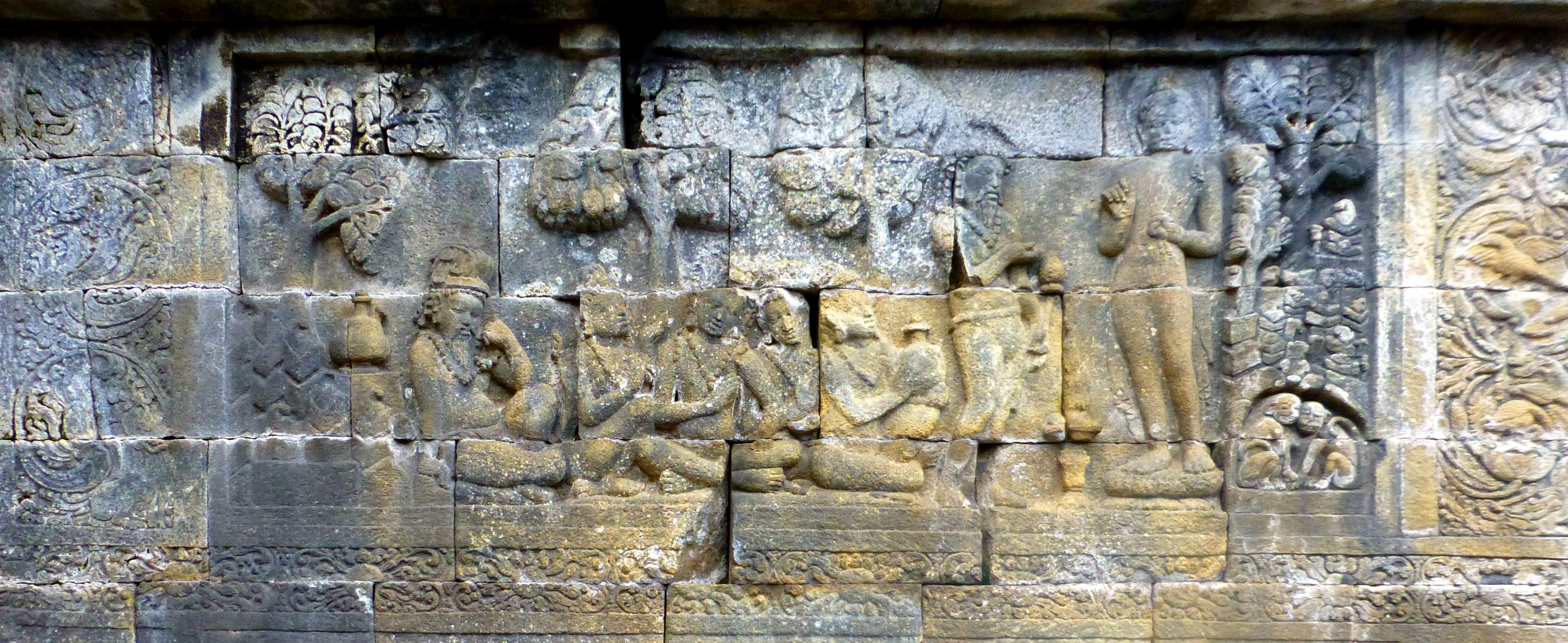 071 W, The Bodhisattva meets with Arada Kalama at Borobudur Photograph of a Lalitavistara relief at Borobudur in Java, Indonesia taken by Anandajoti.